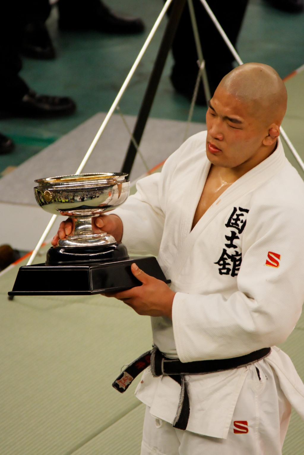 Satoshi Ishii (石井慧), winner of the All-Japan Judo Championships in 2008